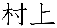 Image of kanji characters for Japanese surname 'Murakami'